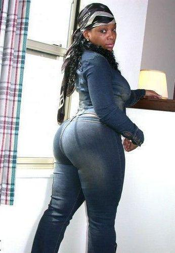 Ines Lai